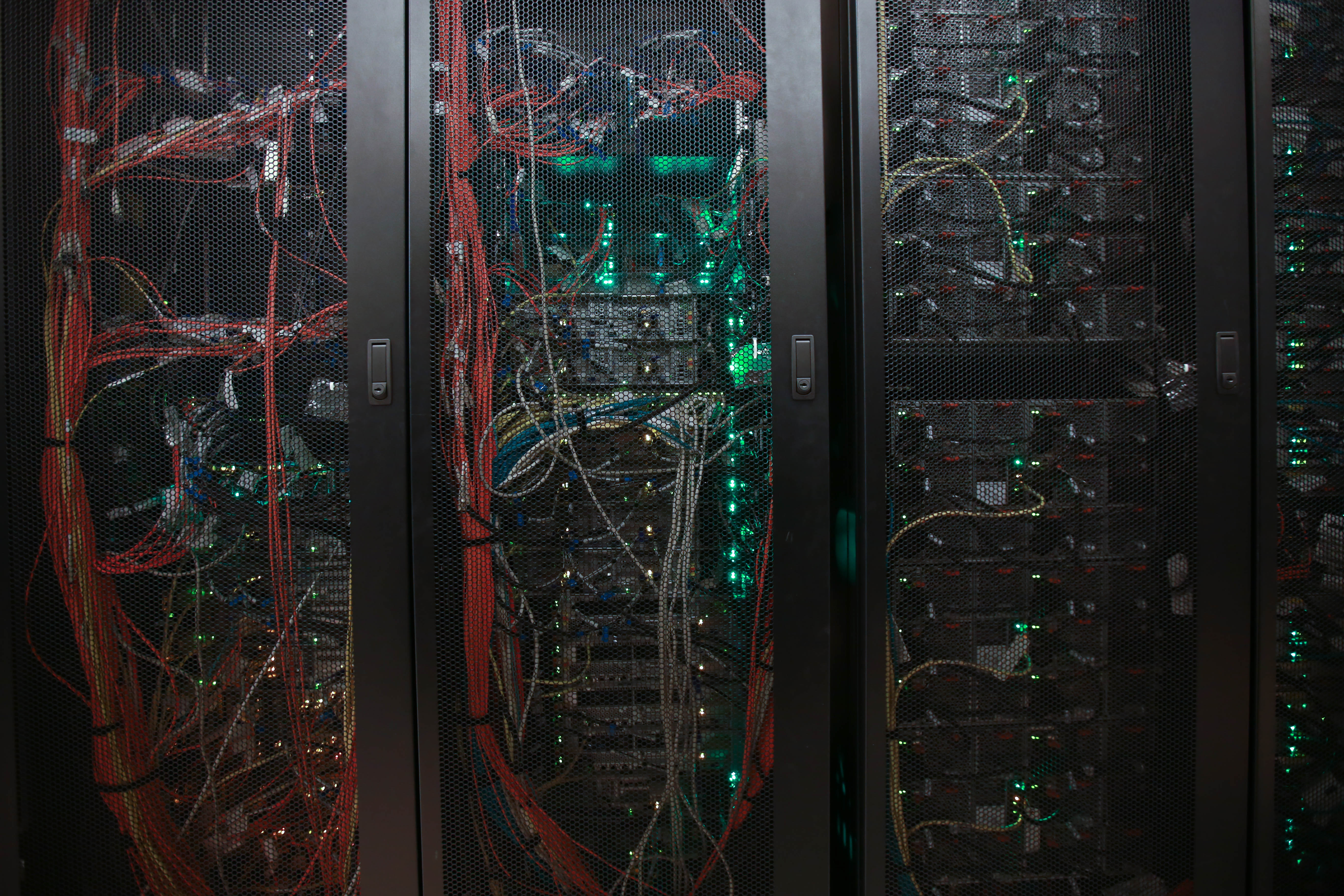 Wiring of Pico supercomputer In Cineca